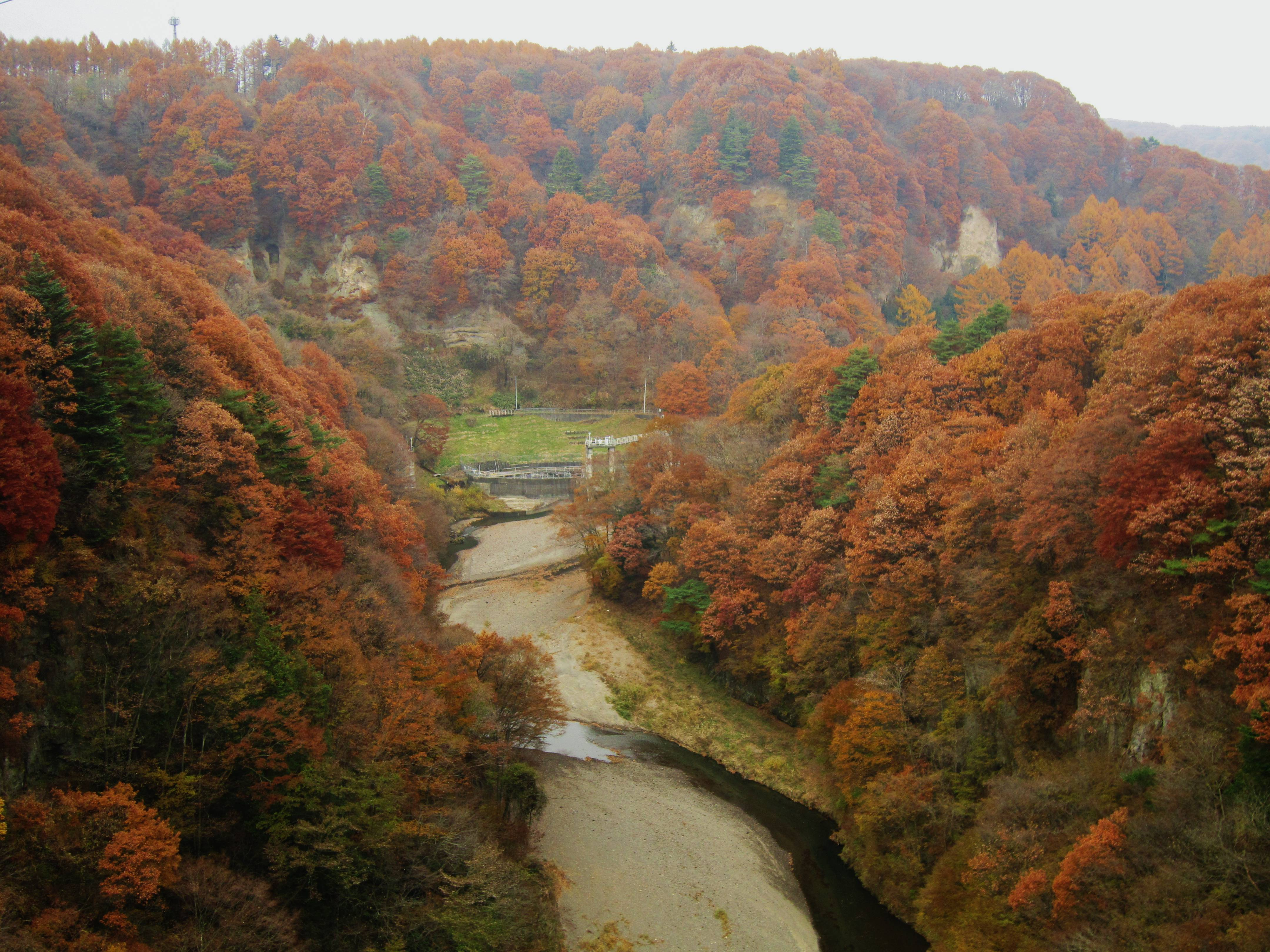 Yu River (view from Karuizawa-ōhashi bridge).